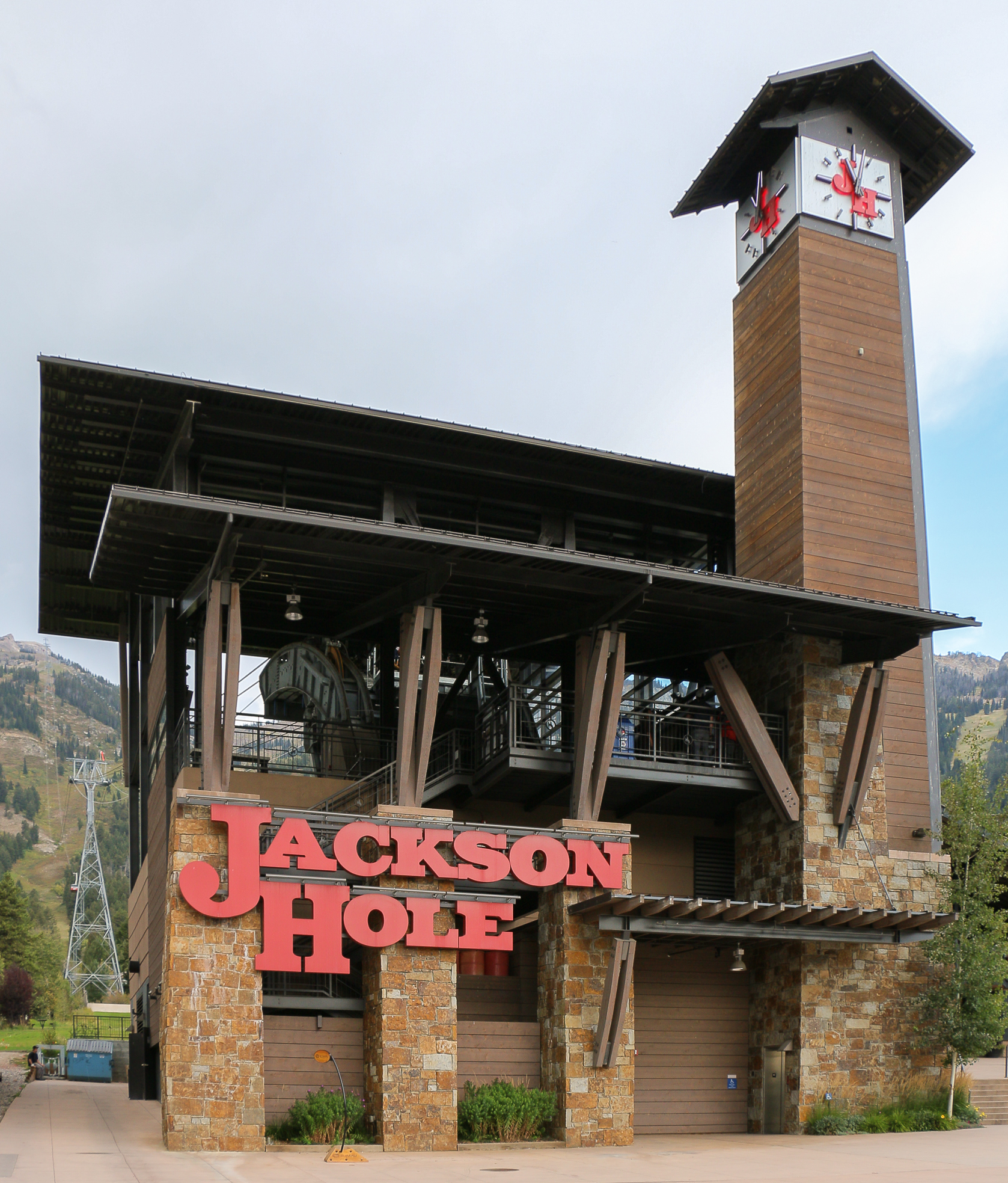 Teton Village, Jackson Hole